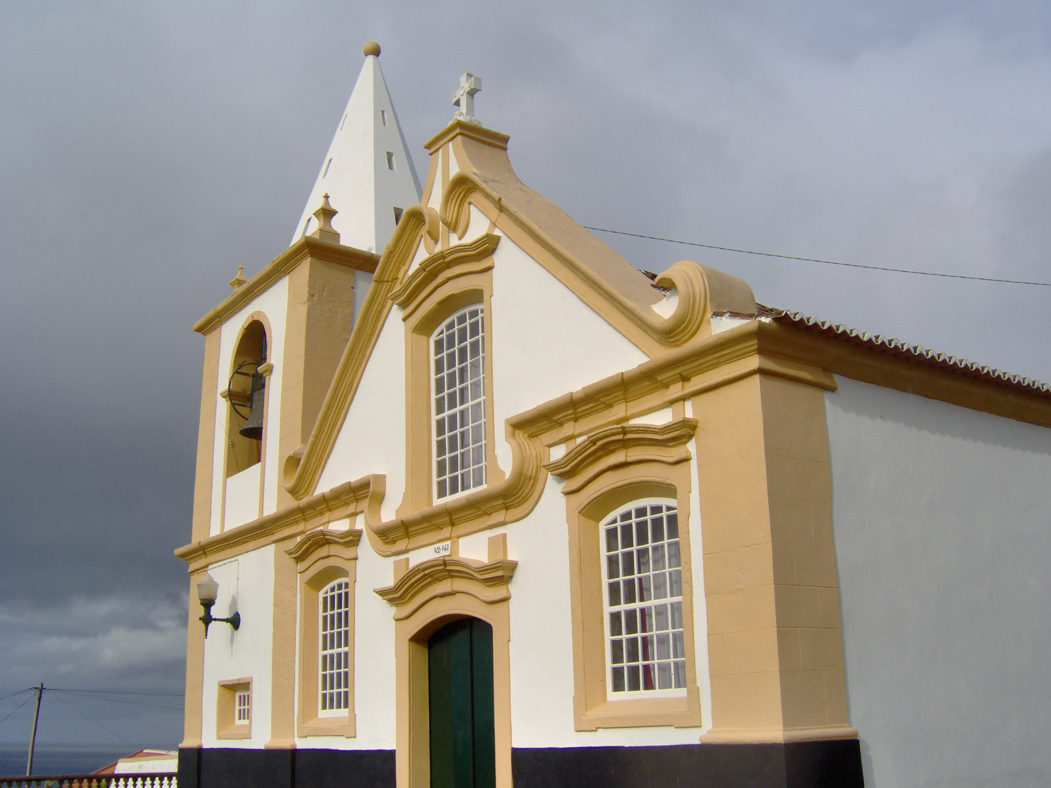 Church of Santa Beatriz, Quatro Ribeiras, Praia da Vitória, Terceira (Azores), Portugal